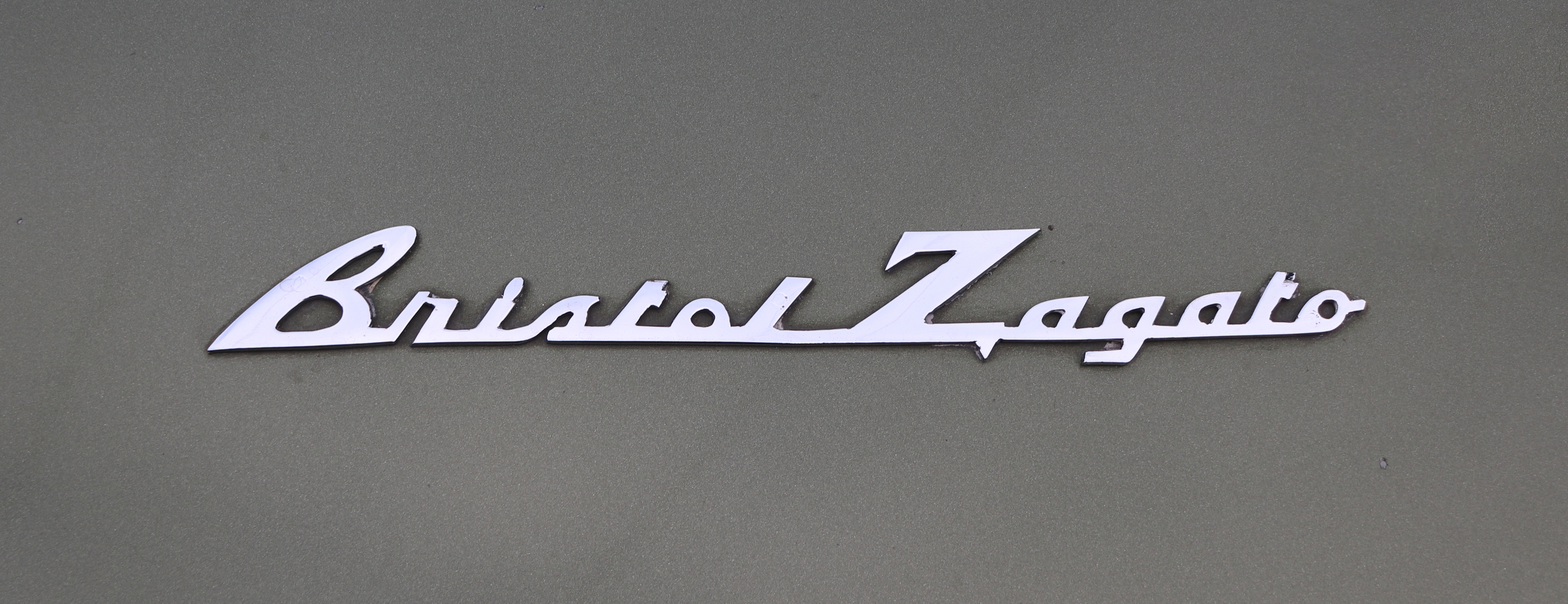 1959 Bristol 406 Zagato 2.2 Badge Taken in Warwick